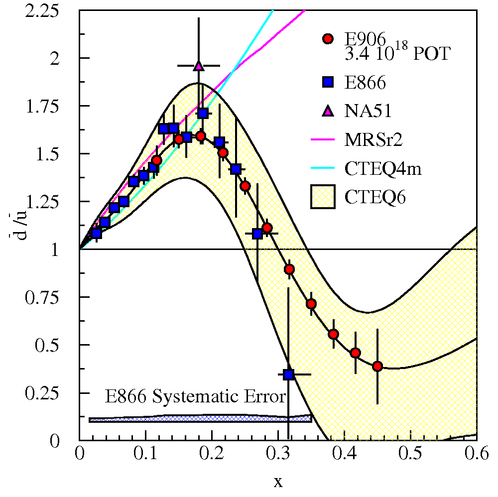 Seaquest expected error bars